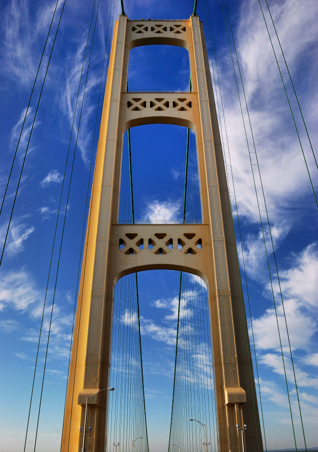 Close up of the Span Of the Mackinac Bridge, taken on Labor Day, 1st September 2008, At the Bridge Walk.